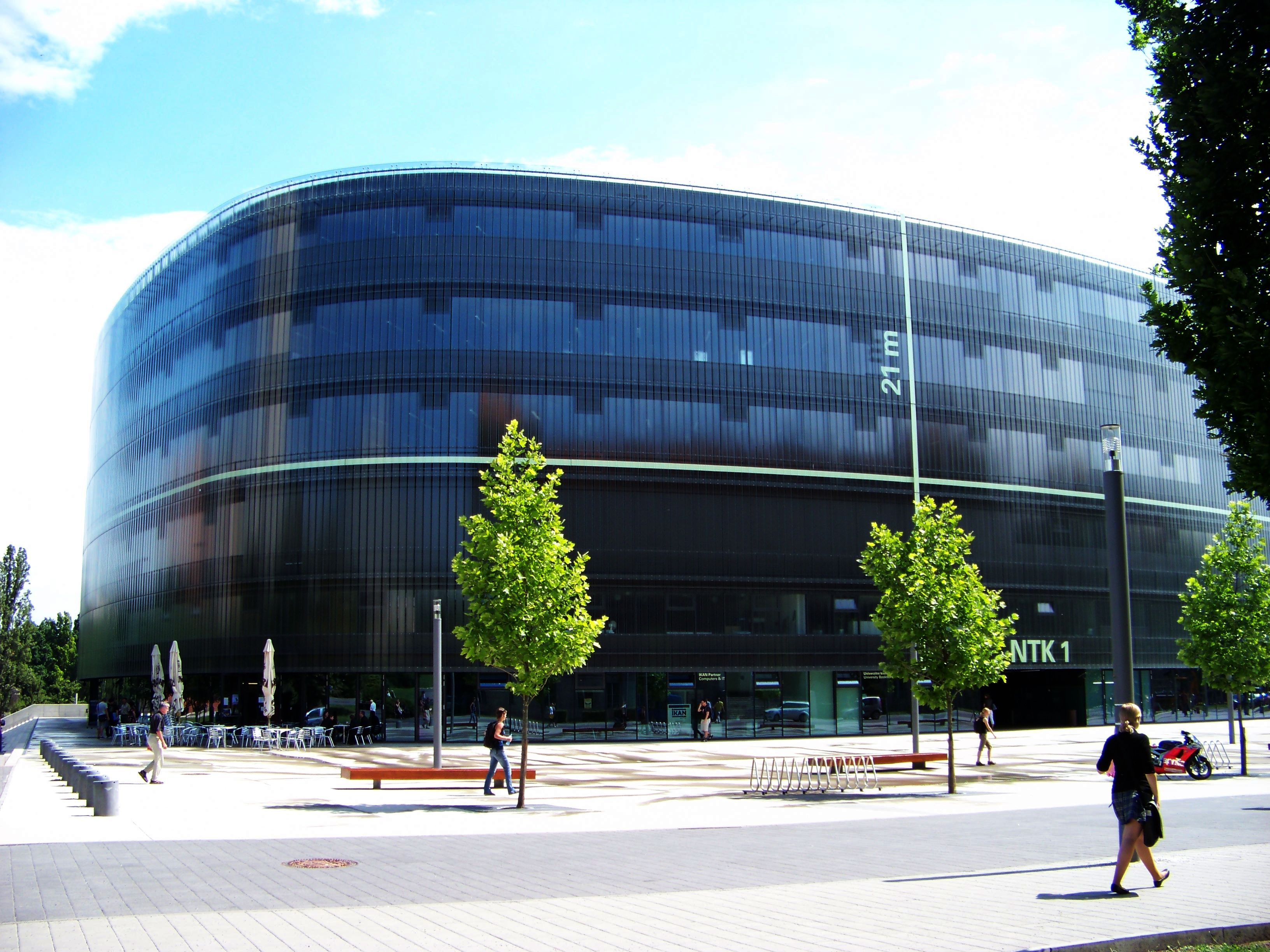 Prague-Dejvice, the Czech Republic. Technická 2710/6, National Technical Library.